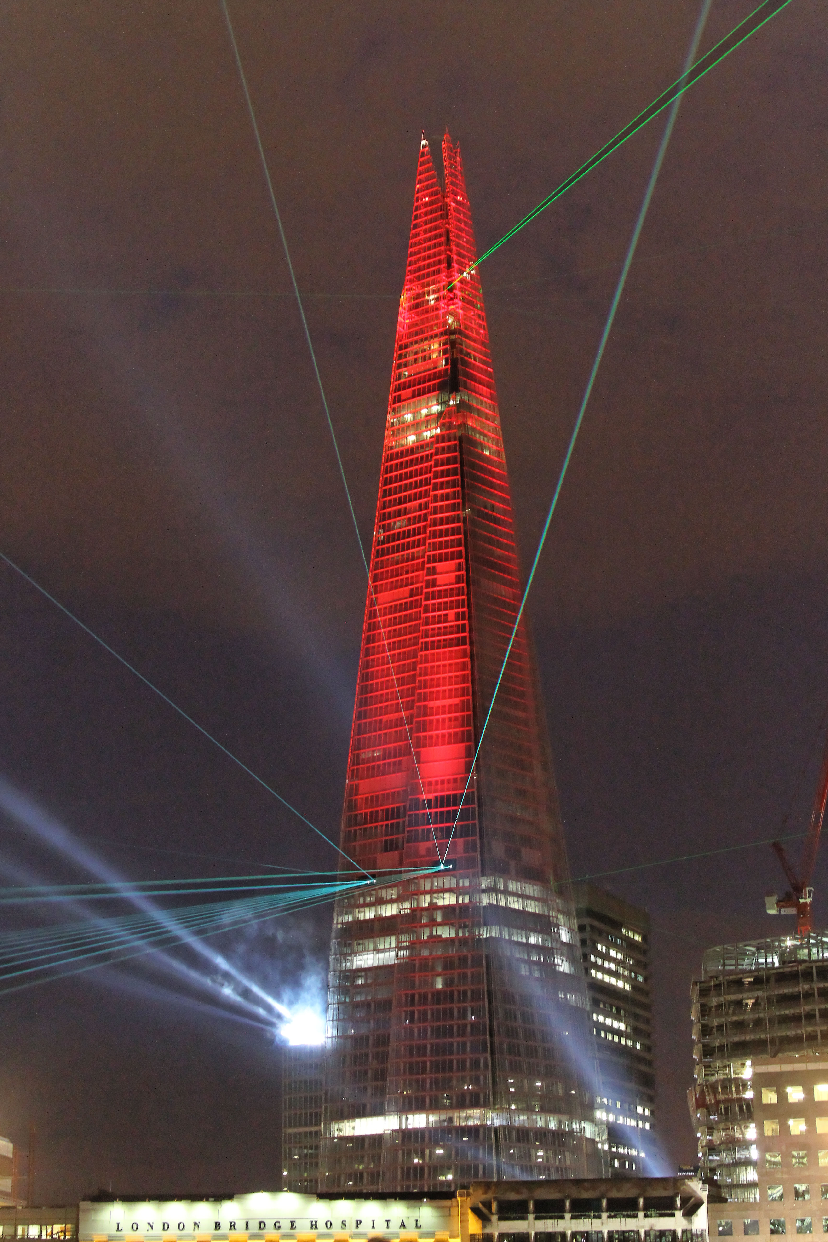 The Shard, the tallest building in western Europe, London, UK during the inauguration ceremony on 5 July 2012. The ceremony concluded with a light show of coloured lasers beamed at the Shard from other buildings.